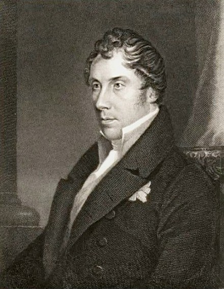 An engraving of George Hamilton-Gordon, 4th Earl of Aberdeen (28 January 1784 – 14 December 1860). A facsimile signature "Aberdeen" is featured below the title.